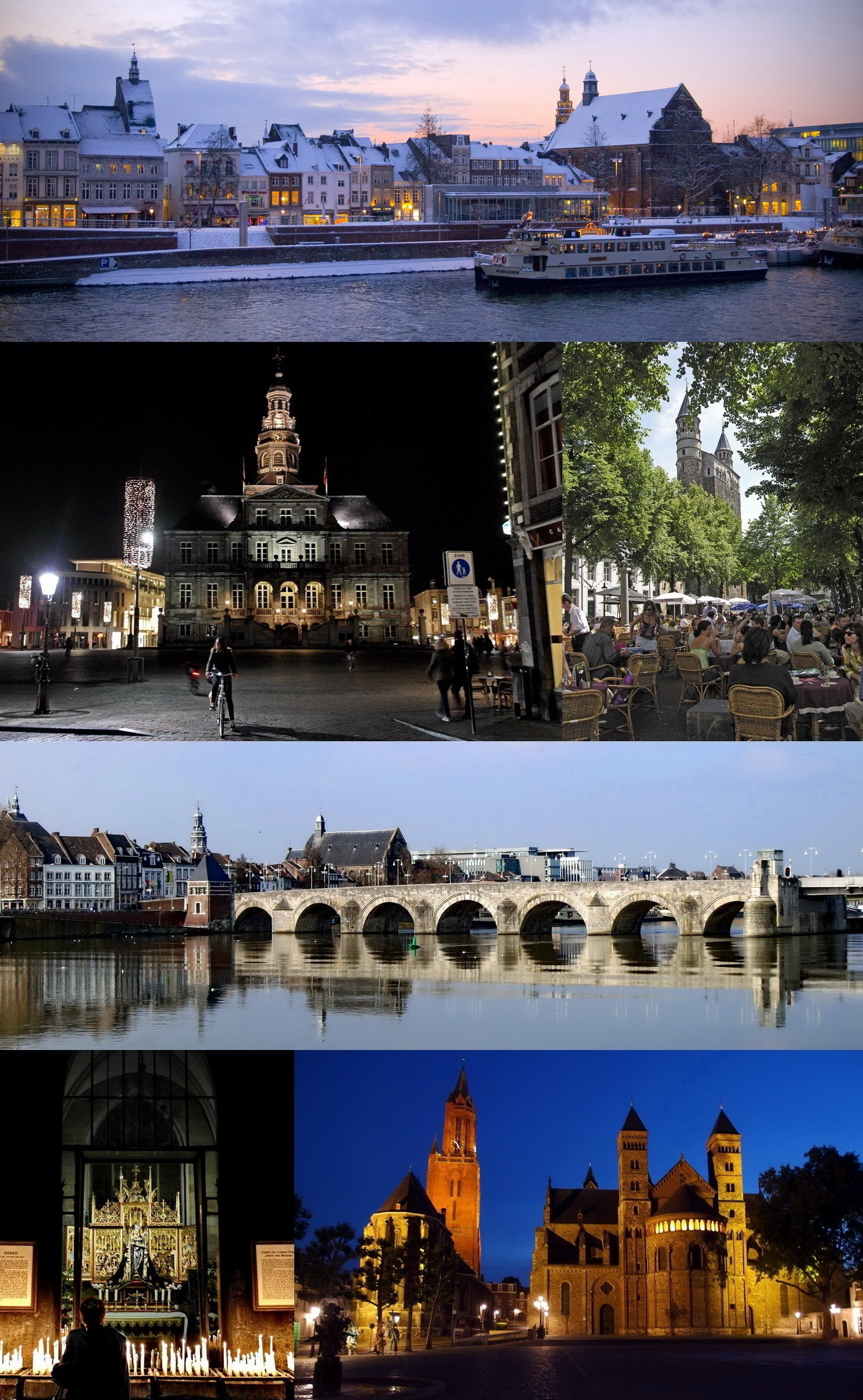 Photo montage of Maastricht, the Netherlands. The following files were used (top to bottom, left to right): File:Maastricht sunset.jpg File:Maastricht, kerstverlichting 2014, Markt01.JPG File:Maastricht platz vor liebfrauenkirche.jpg File:Maasbrug Maastricht - panoramio.jpg File:Maastricht, kapel Sterre der Zee, 2014.JPG File:20140525 Maastricht; Sint-Janskerk and Sint-Servaasbasilica at dusk.JPG File:2016 Maastricht, St-Pietersberg, Lichtenberg 22.jpg All photos under a Creative Commons Share Alike license.